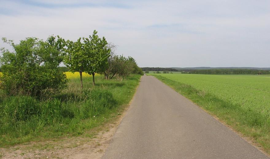 „Belziger Vorfläming“ between Baitz and Trebitz at the border to the Belziger Landschaftswiesen. In the background the „Hohe Fläming“. The village Baitz is an incorporated part of the town Brück in Brandenburg, Germany. The road is a part of the European bikeway R1